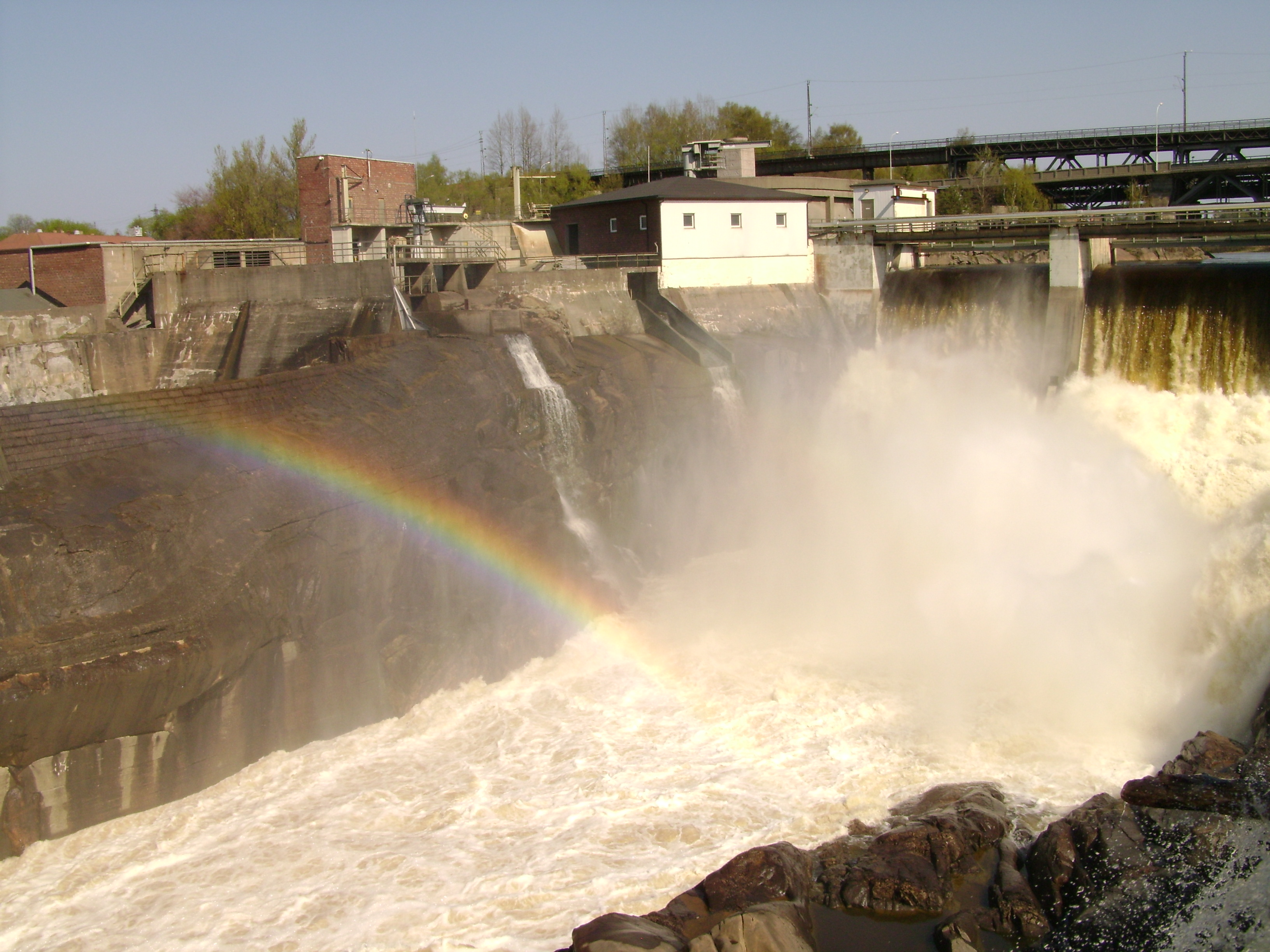 Waterfall Sarpsfossen, Norway